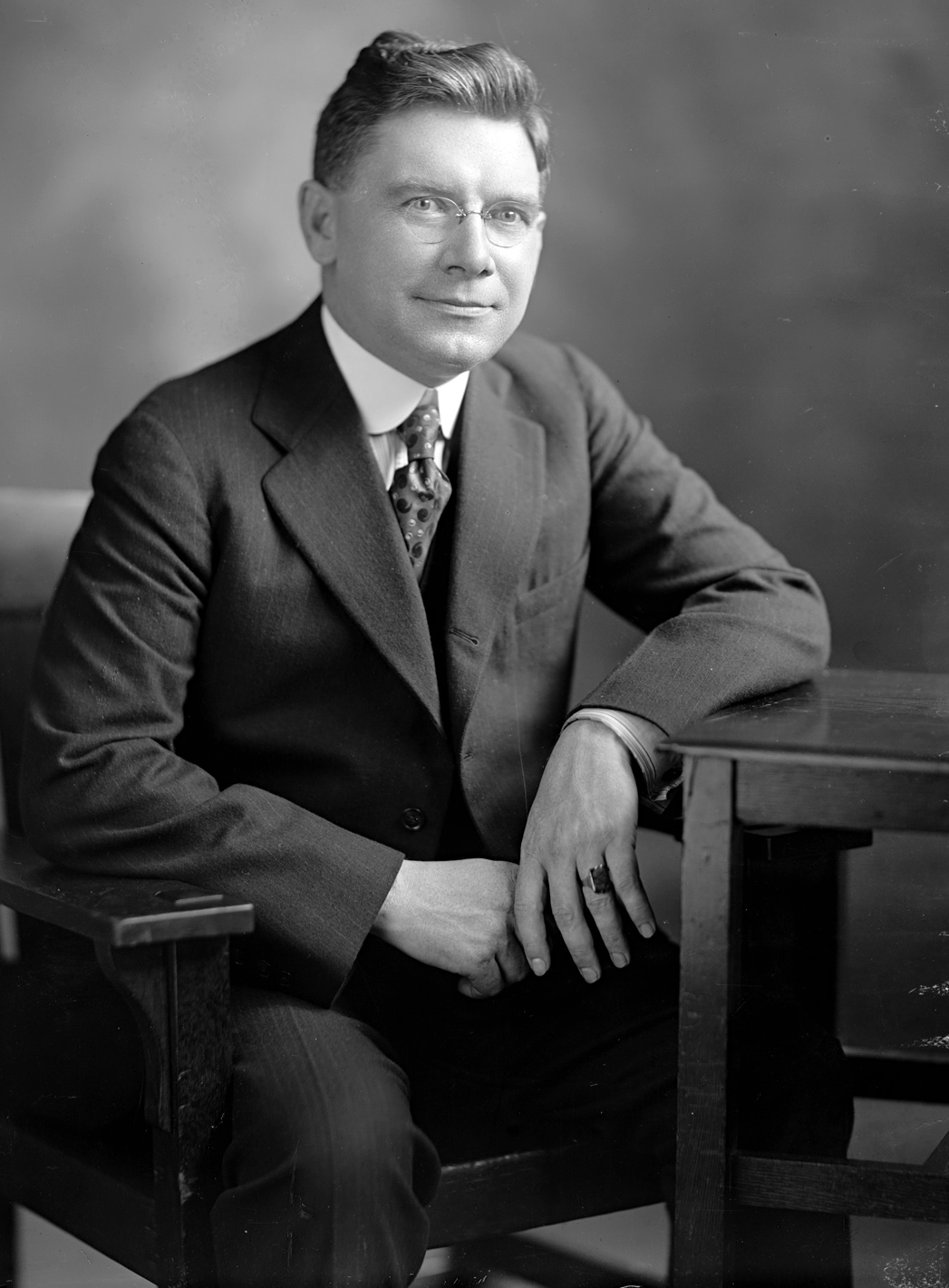 Clifford E. Randall, US Representative from Wisconsin